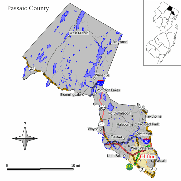 Original work by Jim Irwin, December 2005. Map of Clifton in Passaic County, New Jersey.